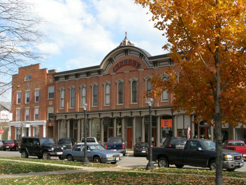 Downtown, Milan, Ohio